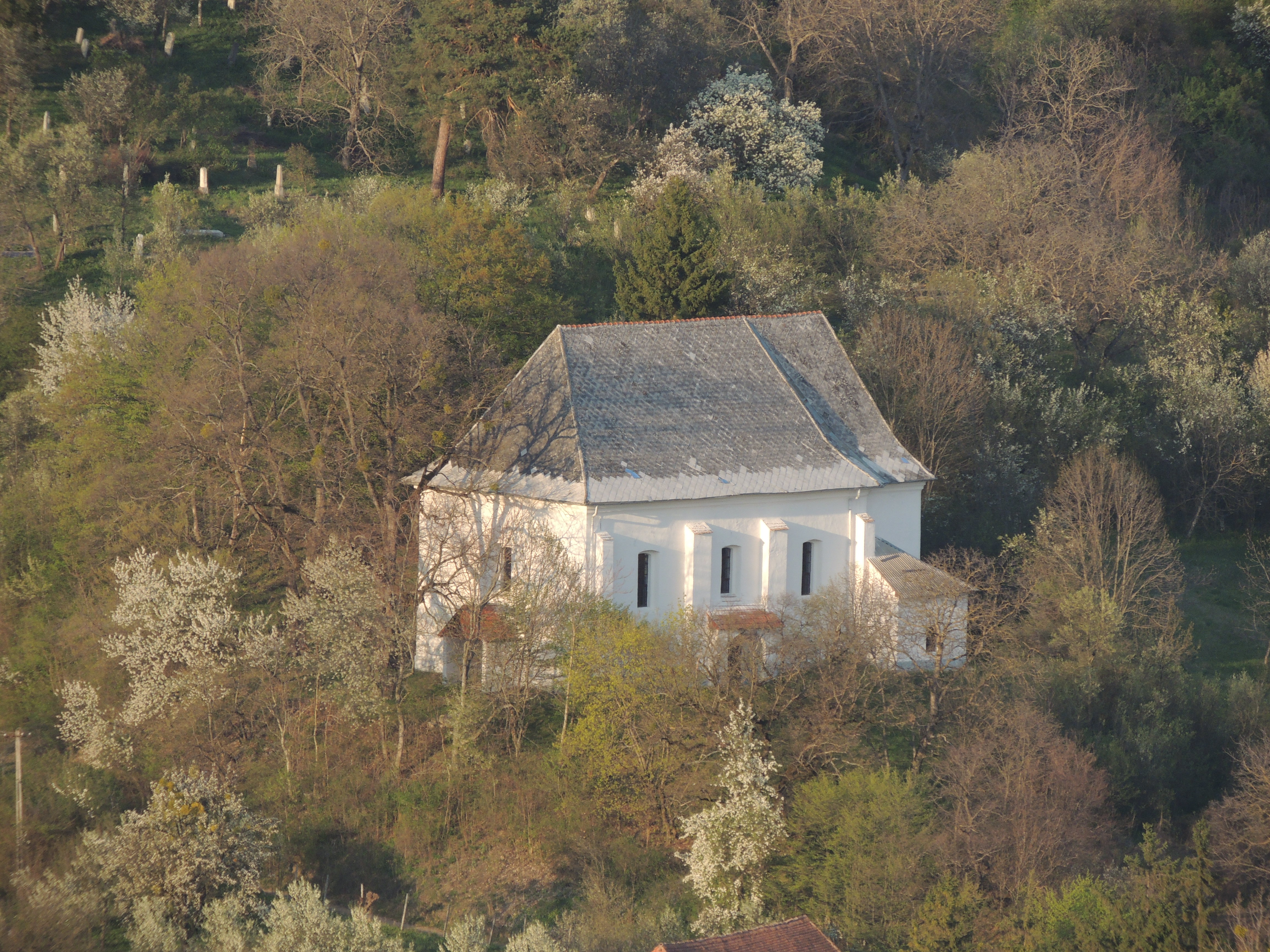 Evangelic Church Uila